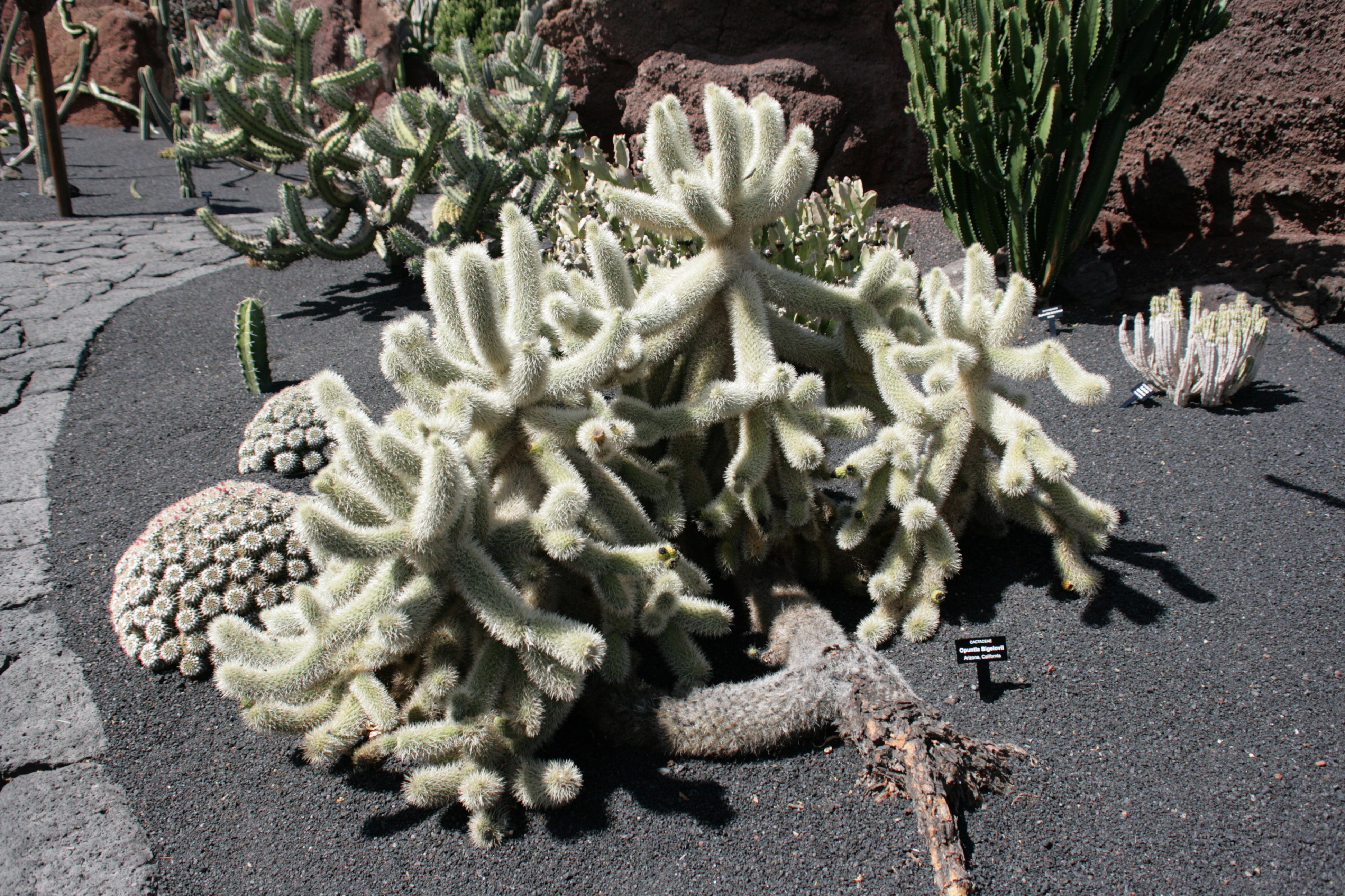 Cylindropuntia bigelovii grown in the Botanical Garden “Jardin de Cactus” in Guatiza, Teguise, Lanzarote, Canary Islands